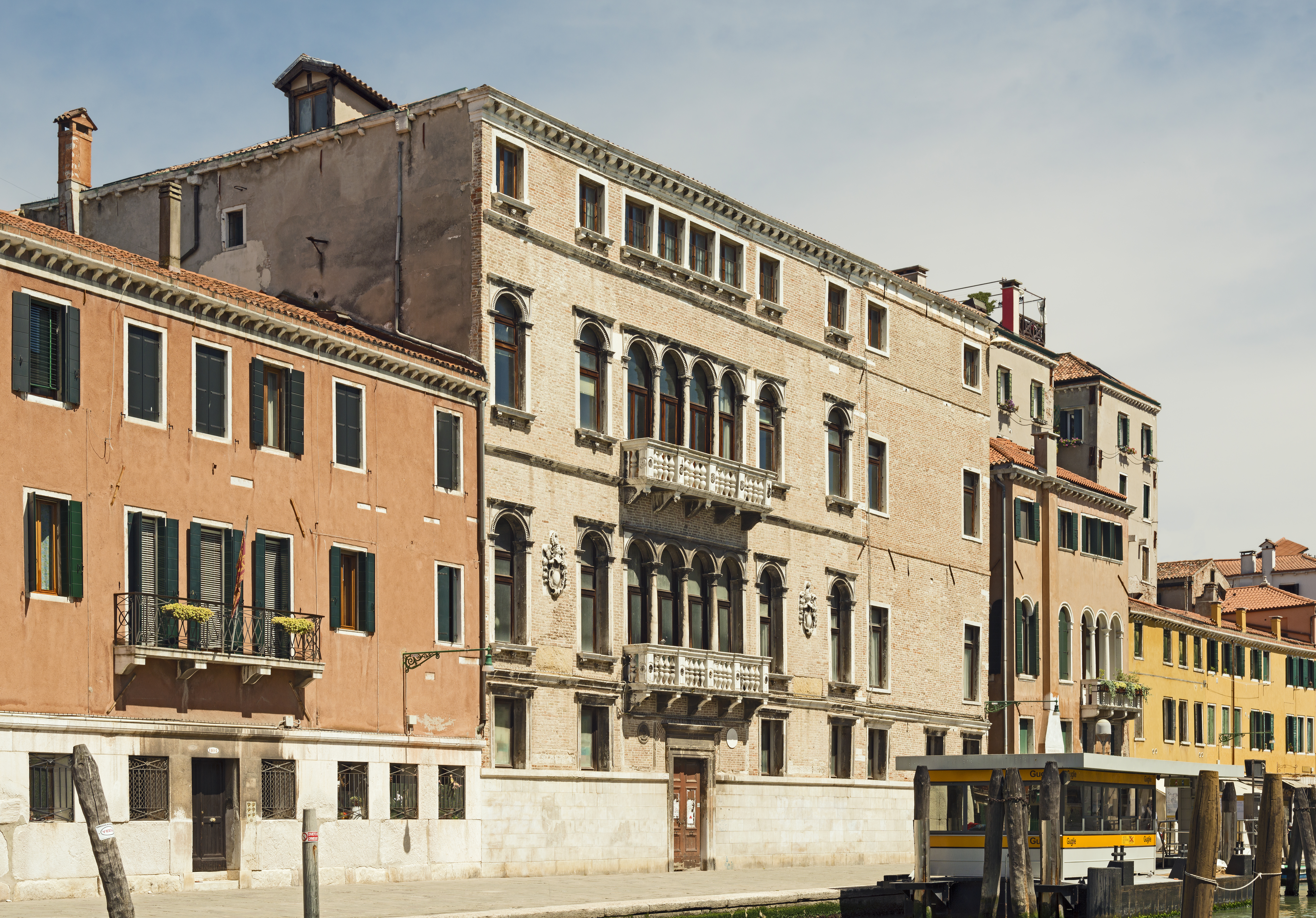 Palace Nani in Venice - The facade of the palace, on the Cannaregio Canal. Vaporetto stops Guglie